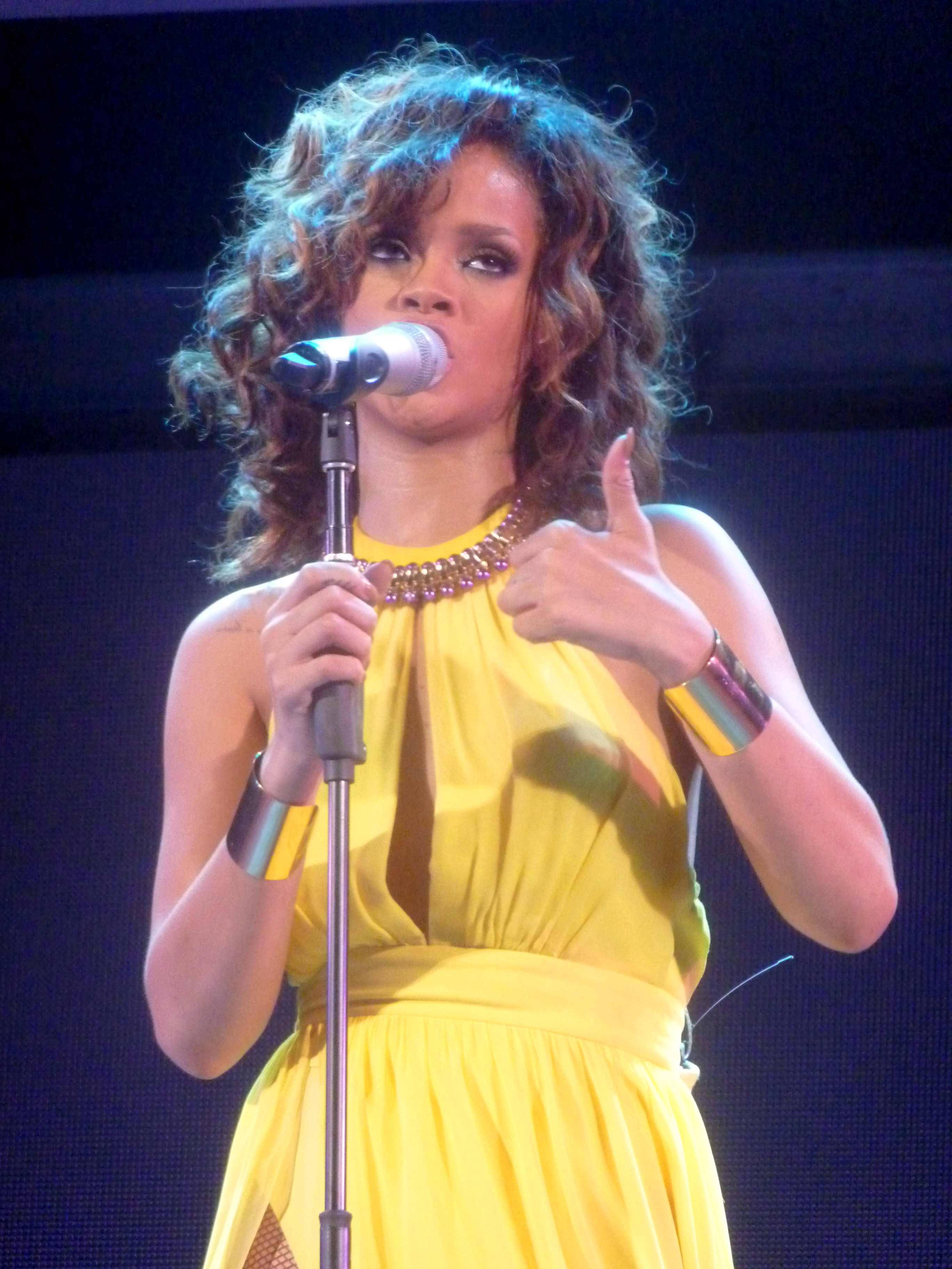 Rihanna in concert at the Paris Bercy during the "Loud Tour" in October 2011.